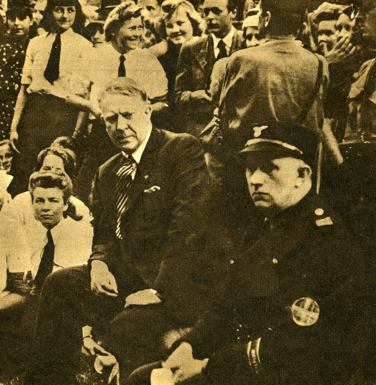 Vidkun Qusiling (1887–1945) was a Norwegian military officer and politician. He first came to international prominence when organizing humanitarian relief during the Russian famine of 1921 in Ukraine. He served as Minister of Defence in two governments 1931–1933, representing the Farmers' Party. On 9 April 1940, with the German invasion of Norway in progress, he attempted to seize power in the world's first radio-broadcast coup d'état, but failed after the Germans refused to support his government. From 1942 to 1945 he served as Minister-President, heading the Norwegian state administration jointly with the German civilian administrator Josef Terboven. His pro-Nazi puppet government, known as the Quisling regime, was dominated by ministers from Nasjonal Samling, the party he founded in 1933. Quisling was put on trial during the legal purge in Norway after World War II and executed by firing squad at Akershus Fortress, Oslo, on 24 October 1945.